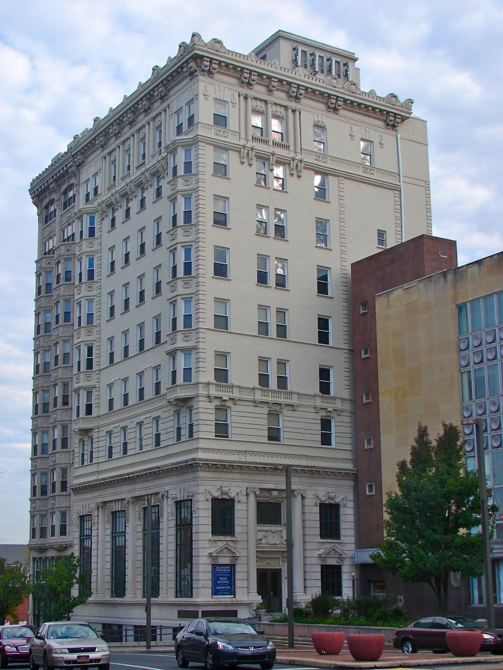 Allentown National Bank on the NRHP since December 28, 2005. At 13–17 N. 7th Street, Allentown, Pennsylvania